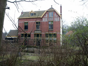 Former Railway Station Rolde